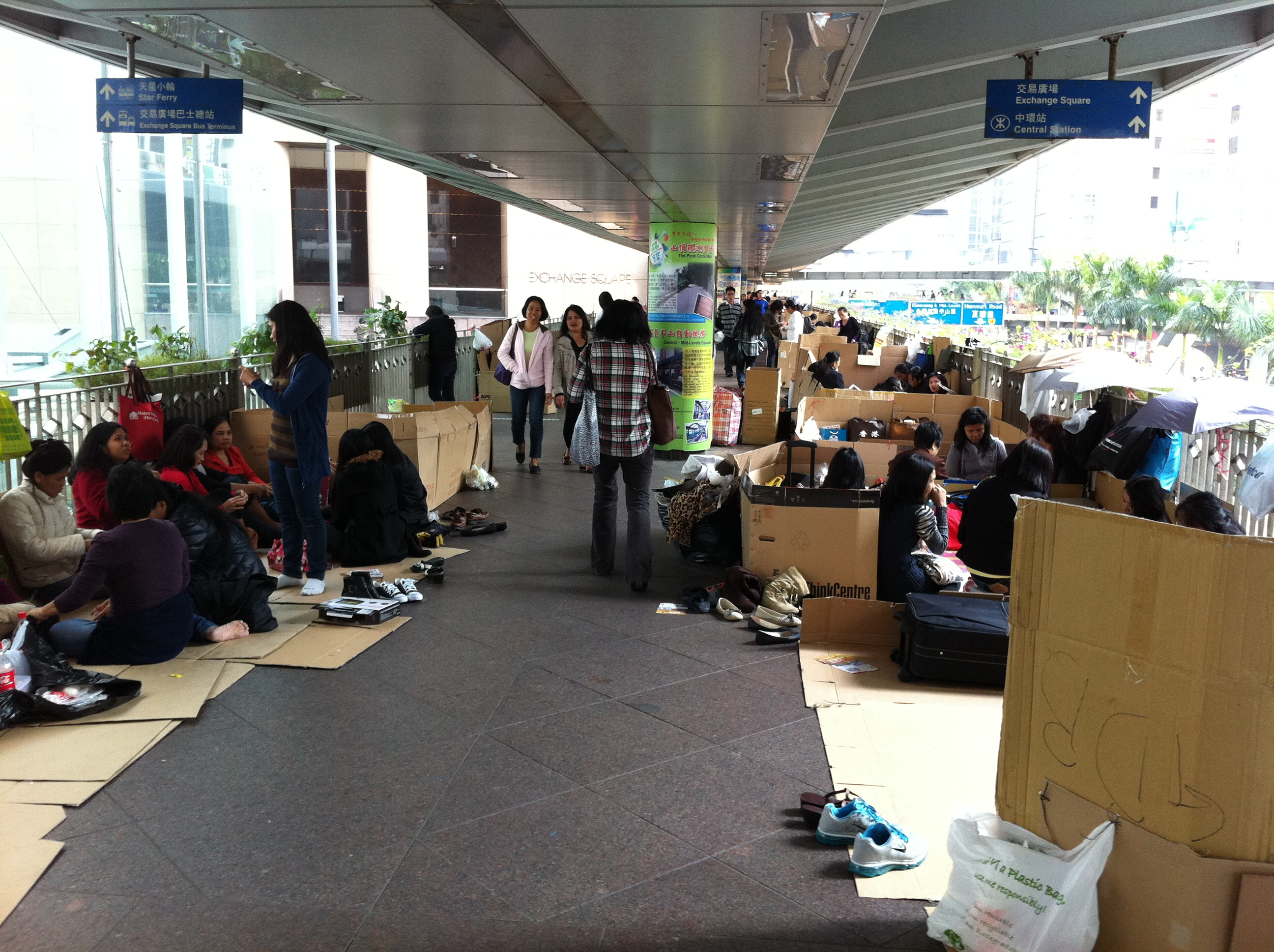 中環 干諾道中, Connaught Road Central, Hong Kong